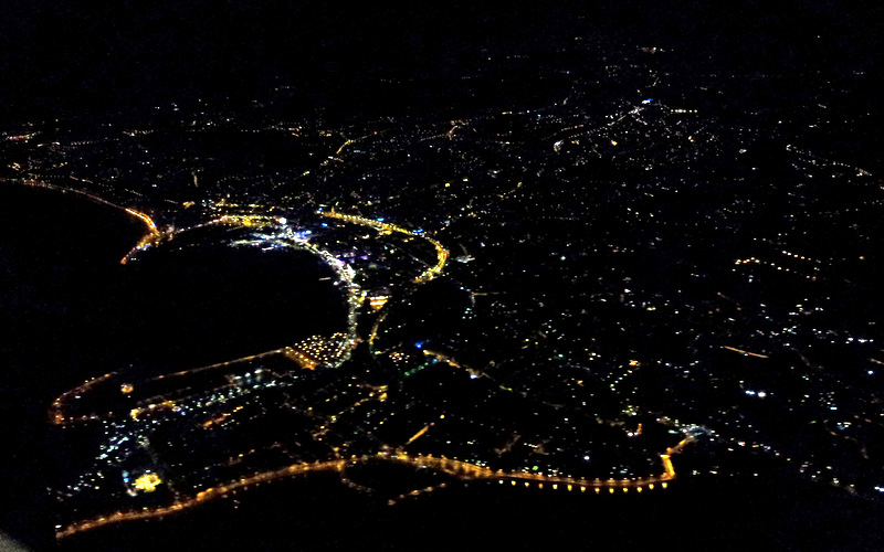 Cannes by night